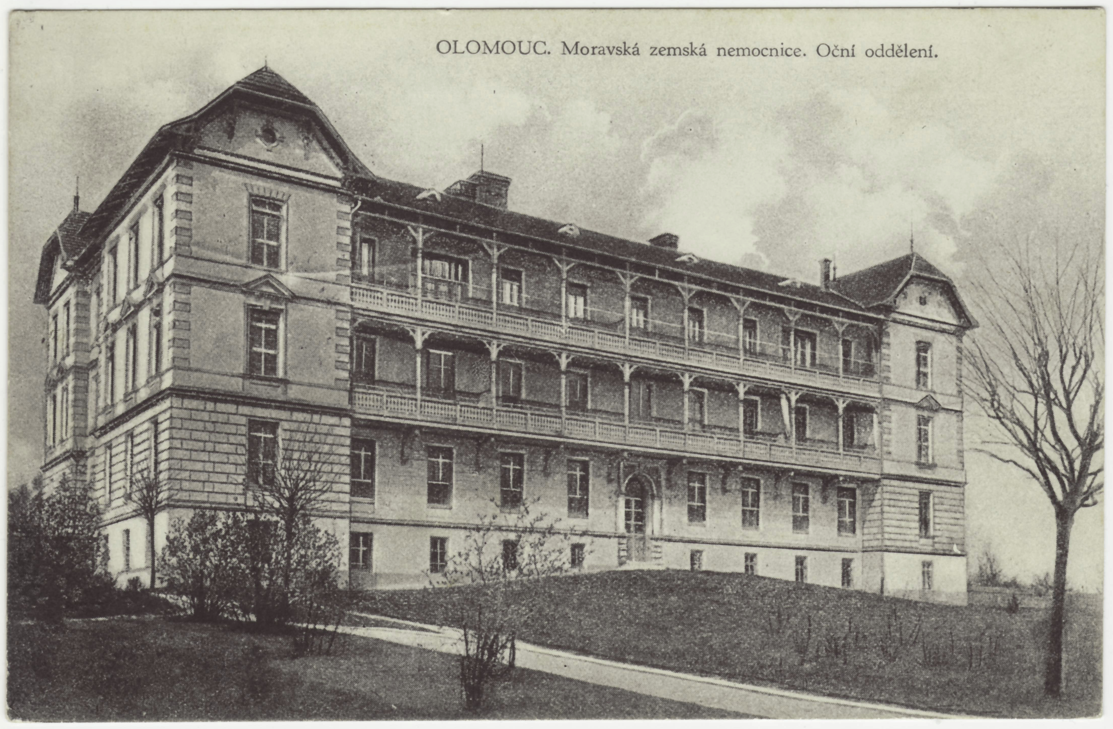 Historical postcard with the ohthalmology department (nowadays Ophthalmology Clinic) of the Olomouc hospital (nowadays called University Hospital in Olomouc